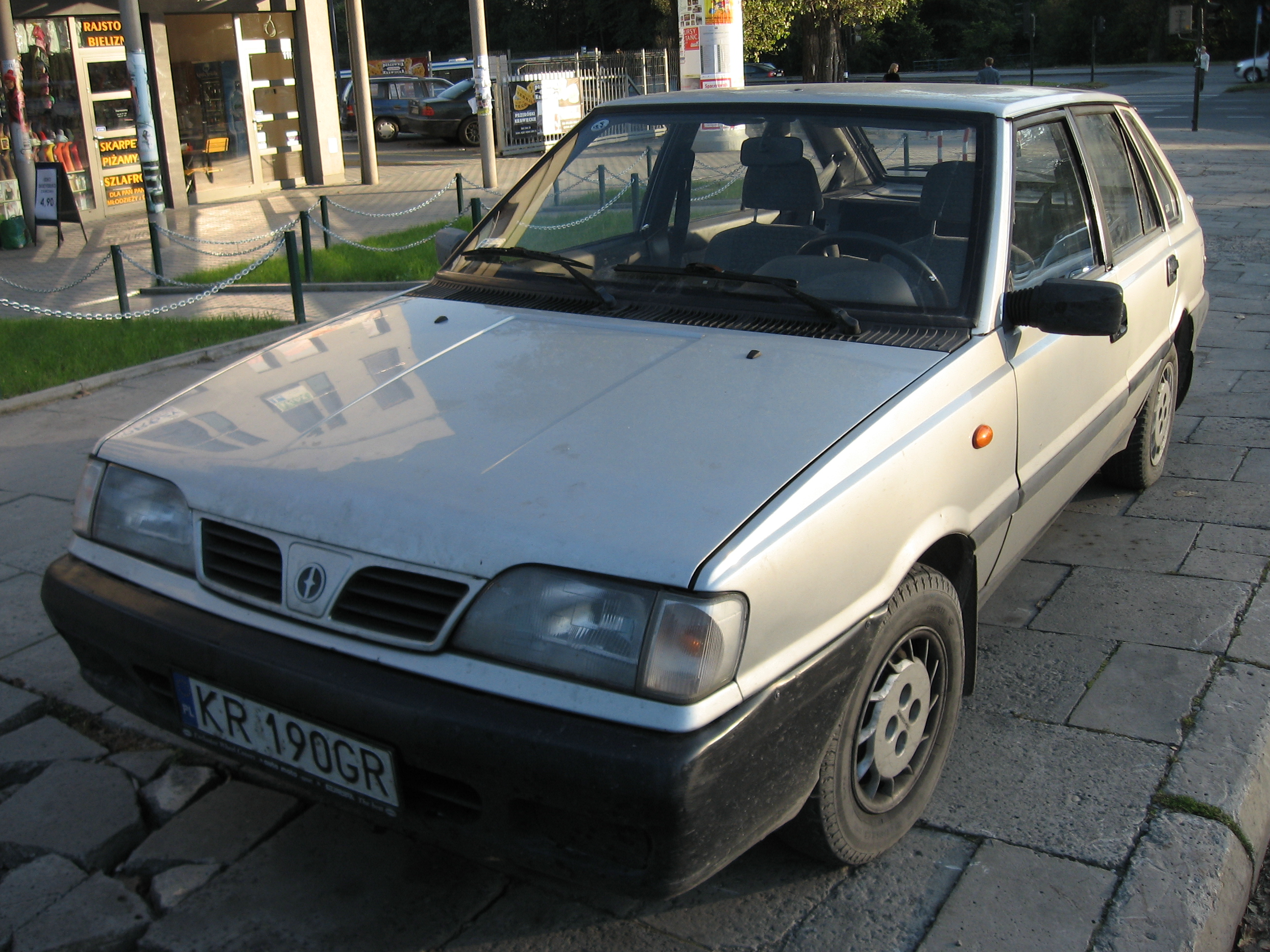 Impoverished version of Daewoo-FSO Polonez Caro Plus 1.6 GLI on Grażyny street in Kraków.